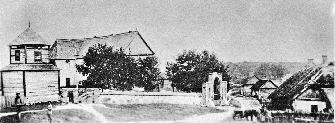 Vepriai, Lithuania in the end of the 19th century.